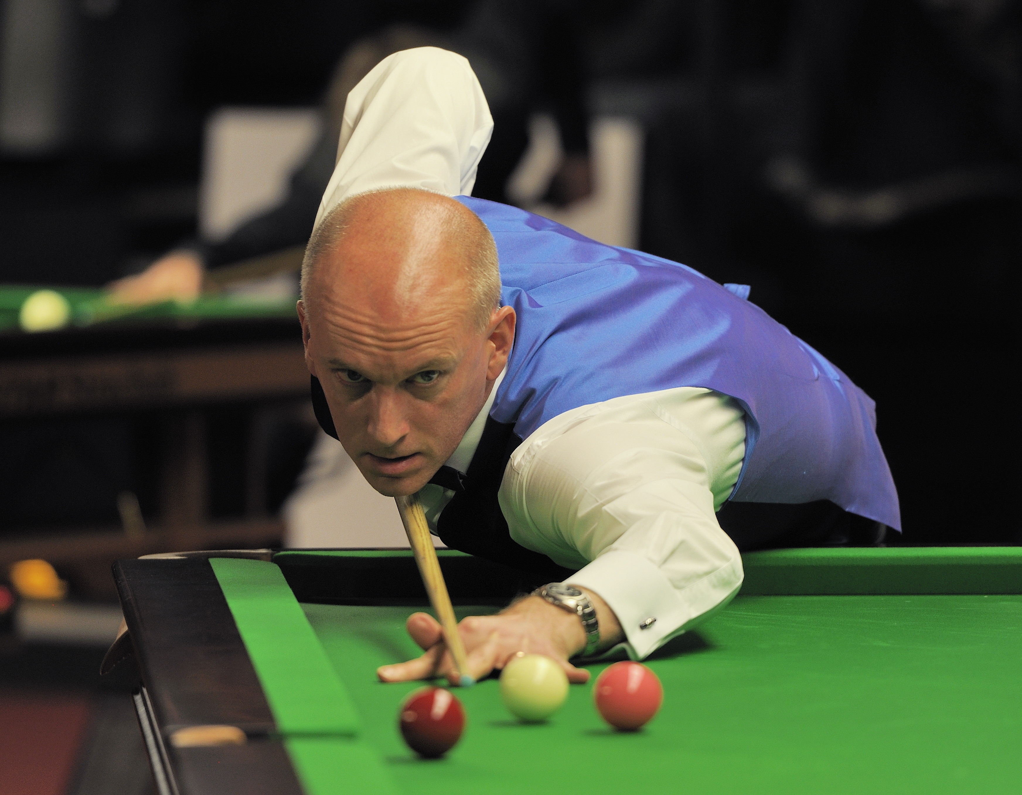 Picture taken in Berlin during the Snooker German Masters in 2014. Peter Ebdon.